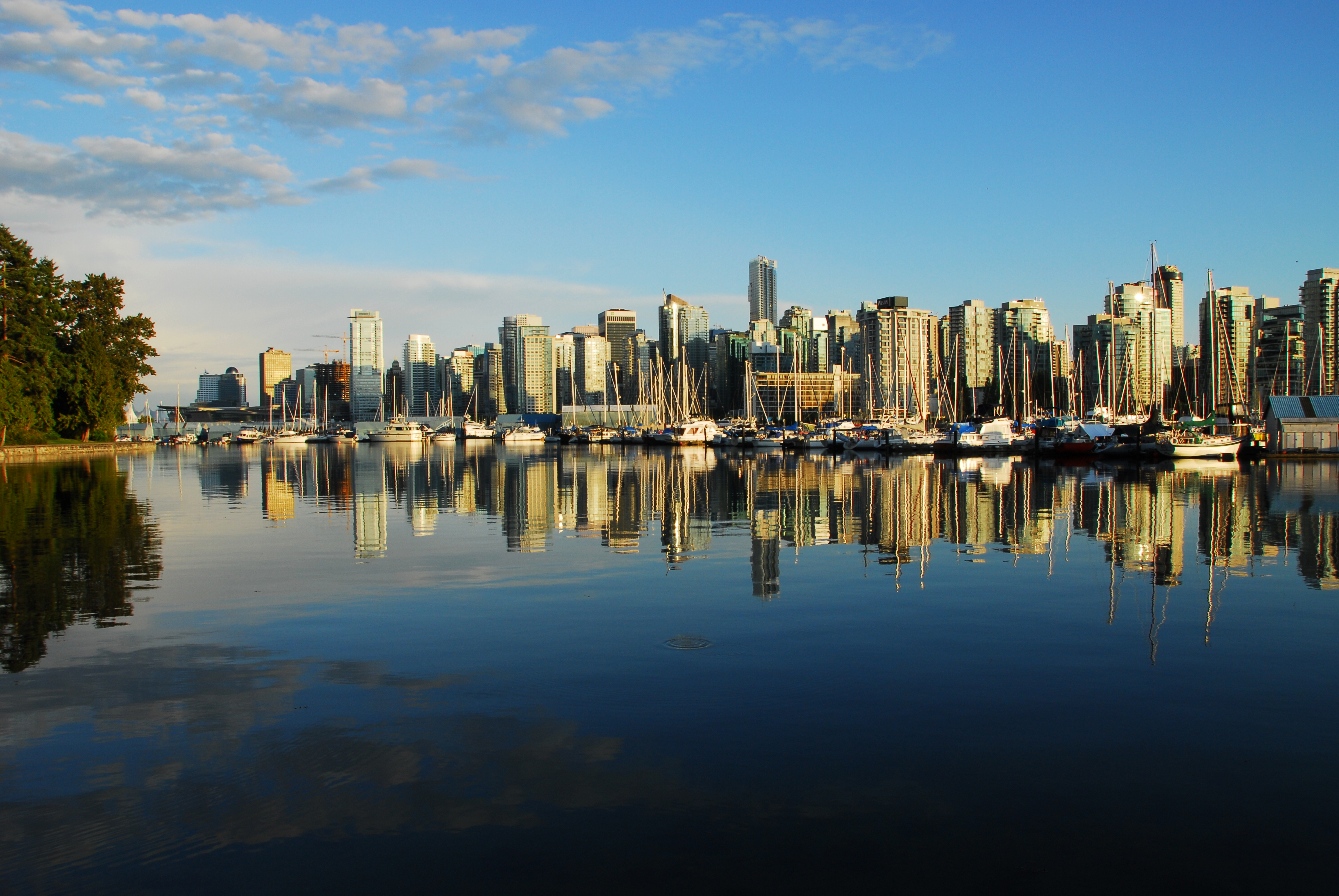 Vancouver City, BC,Canada